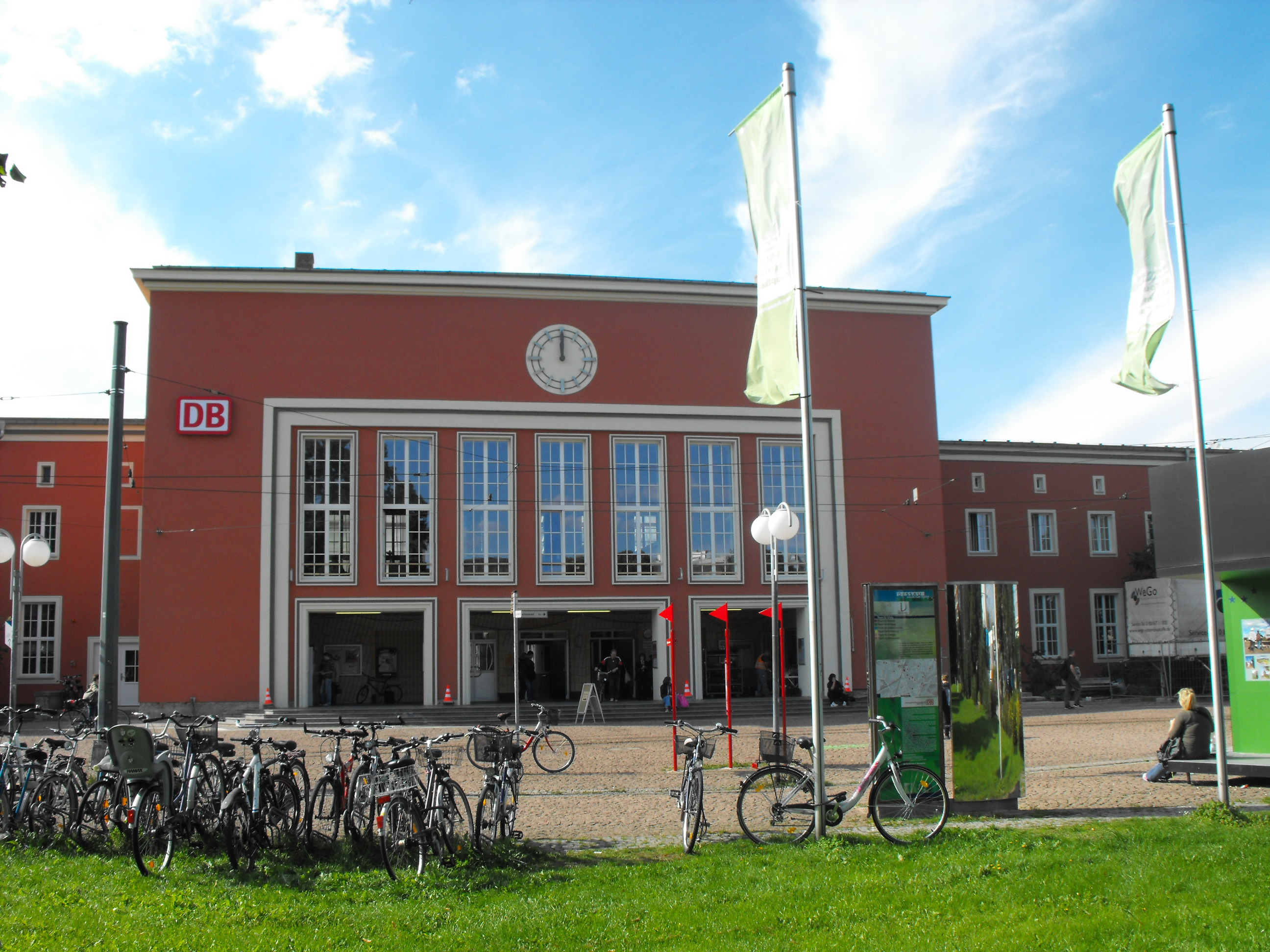 main entrance of the Dessau central station after rehabilitation 2010.